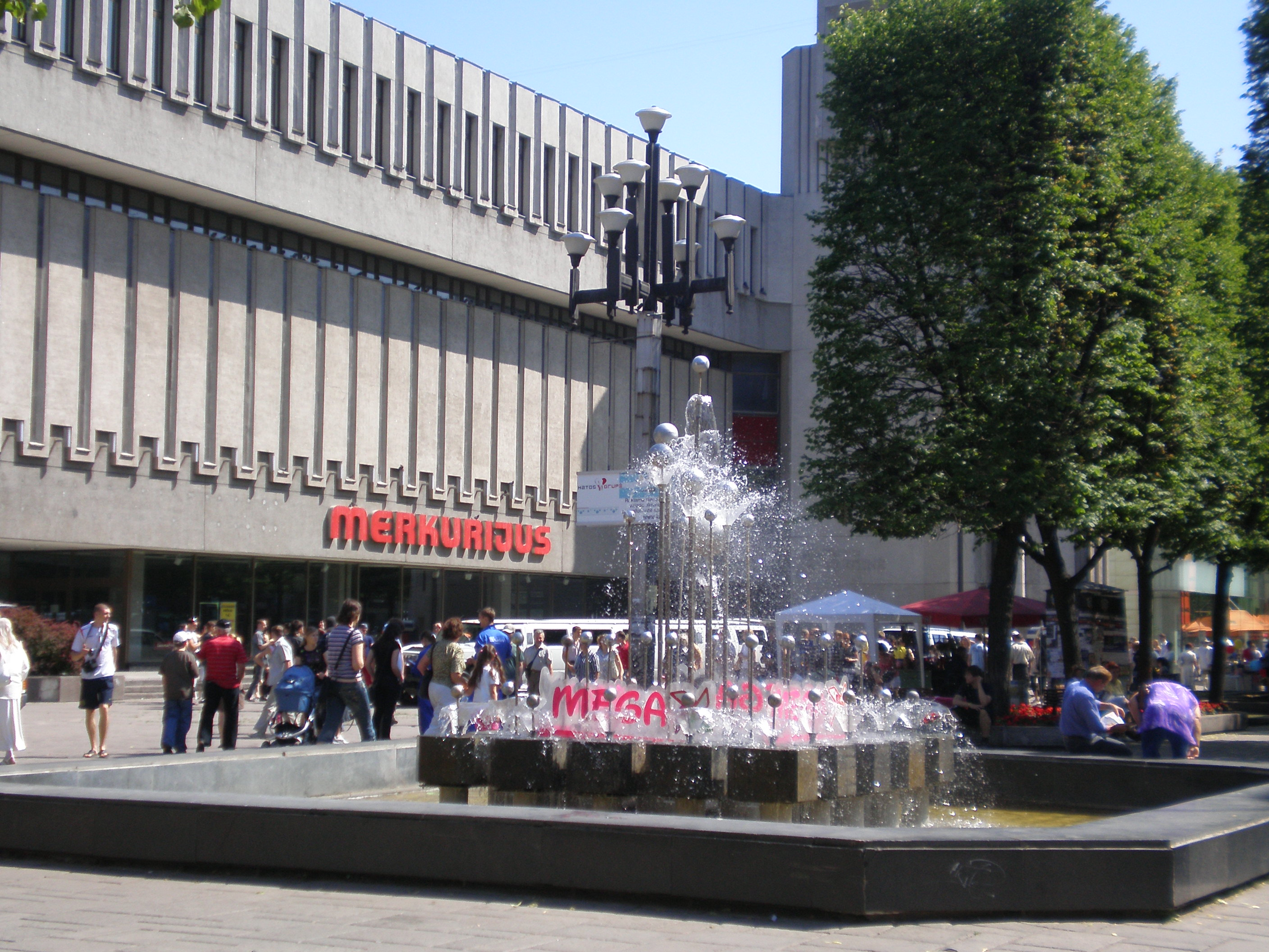 Fountain in Liberty Avenue, Kaunas.